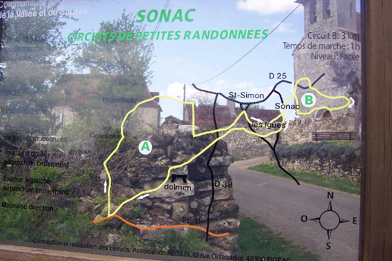 Glass panel discribing hike pathes around town Sonac in Lot department in France.